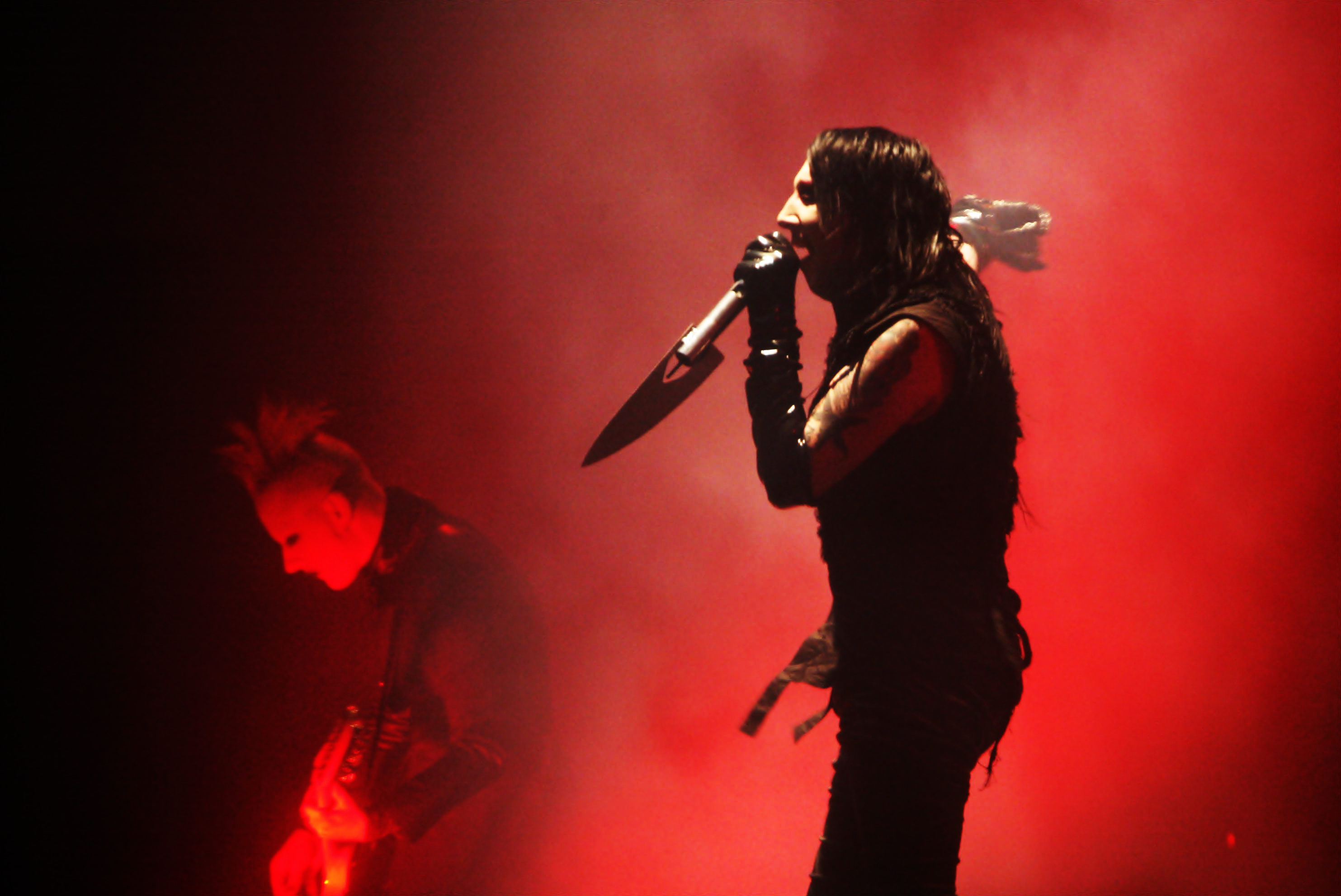 Marilyn Manson at the Eurockéennes of 2007